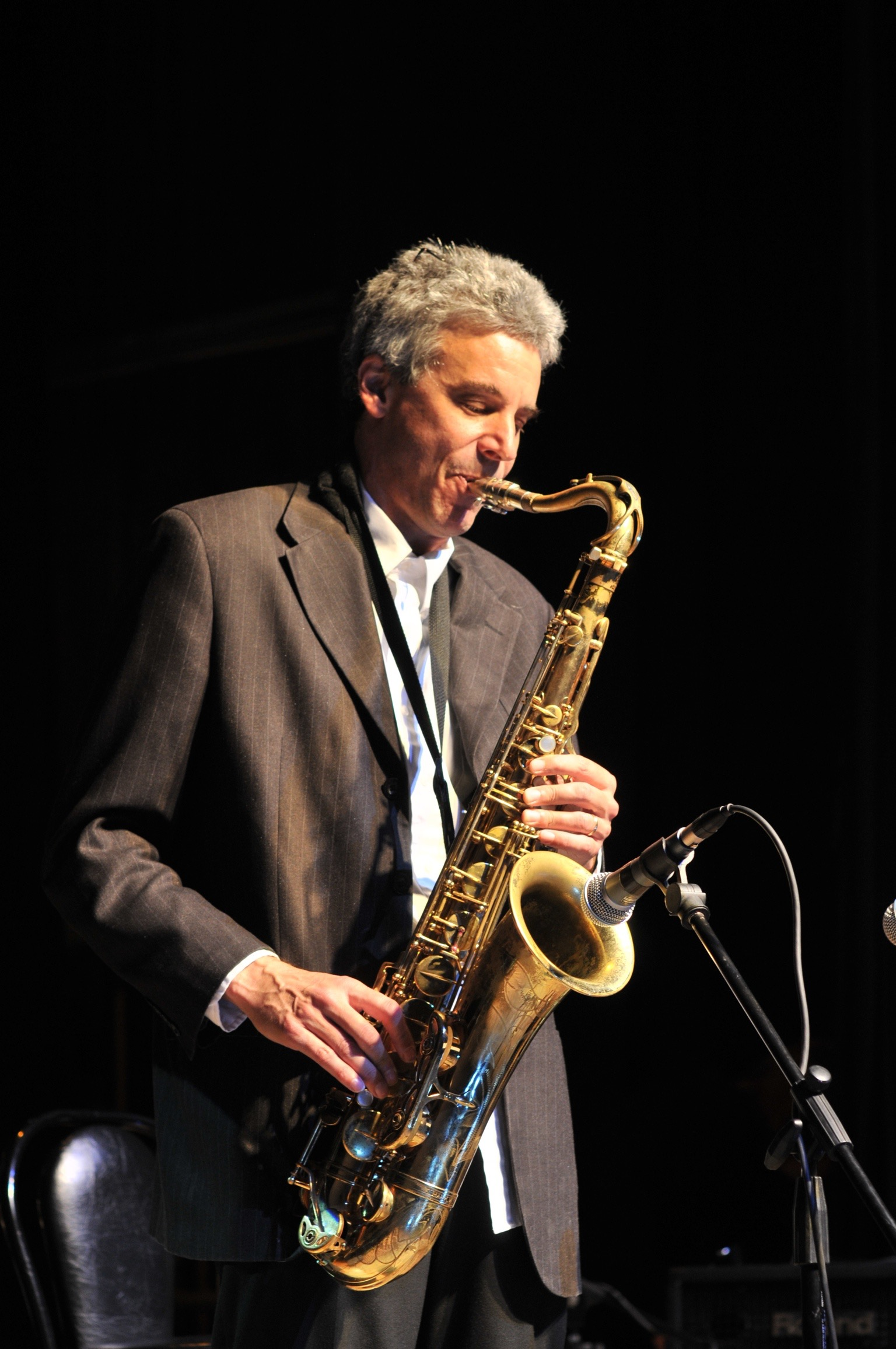 Gary Meek in Moscow, April 2010